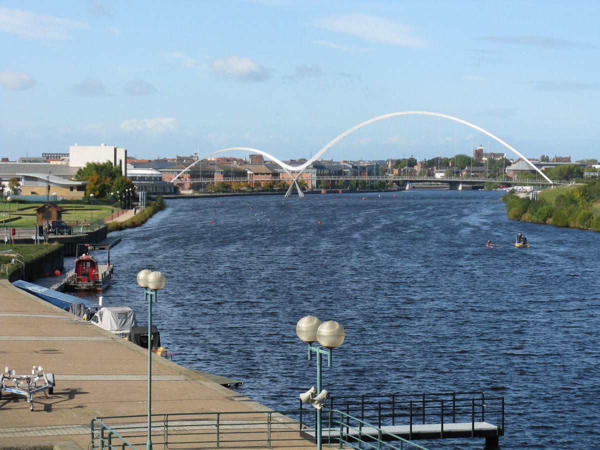 The Infinity Bridge on the River Tees in Stockton-on-Tees taken from the Tees Barrage.